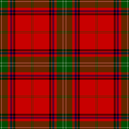 Seton tartan, as published in the Vestiarium Scoticum. Modern thread count: G10 W2 G24 R10 b8 R4 Bk8 R64 G2 R4.